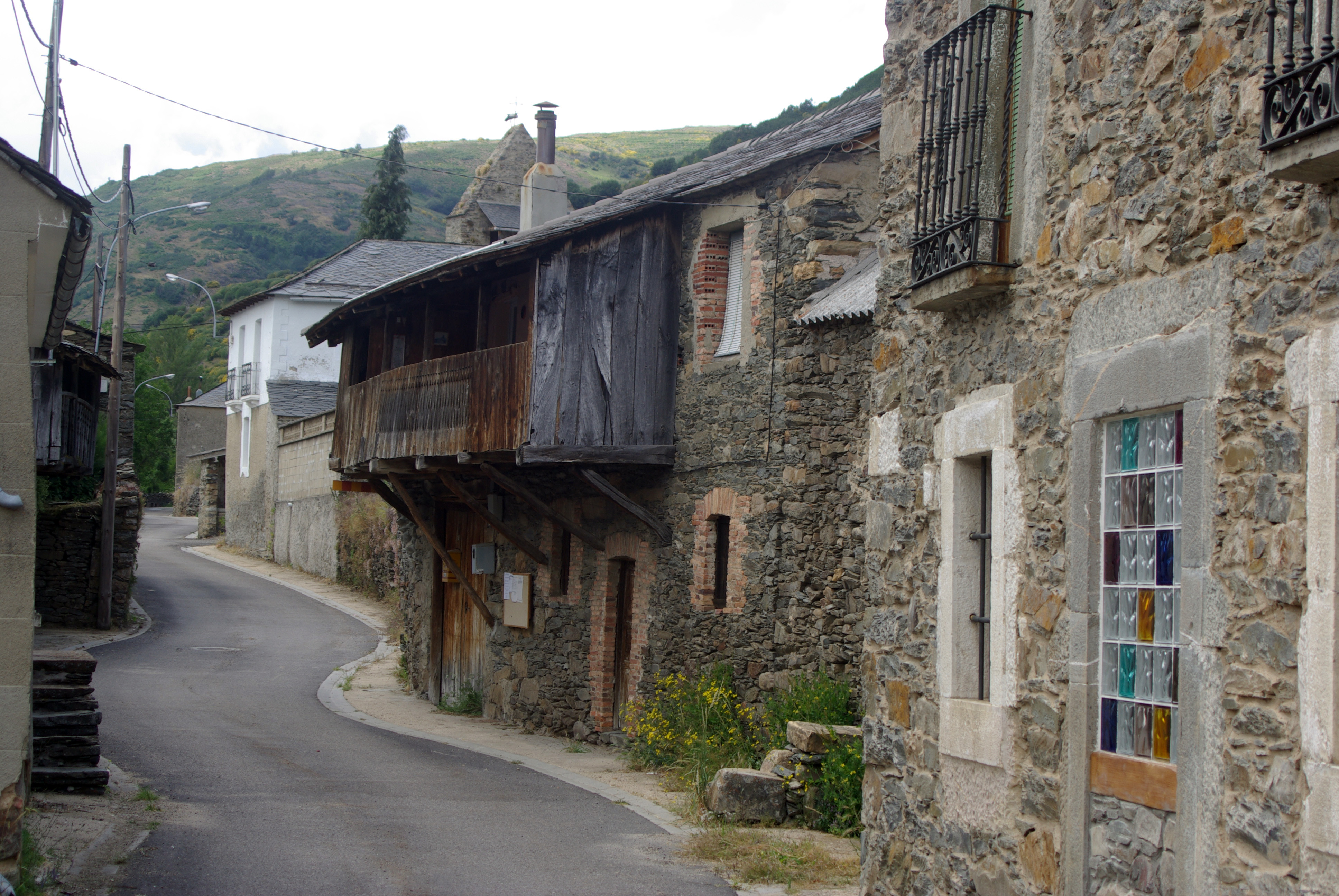 Posada de Omaña (Murias de Paredes, León, Spain)